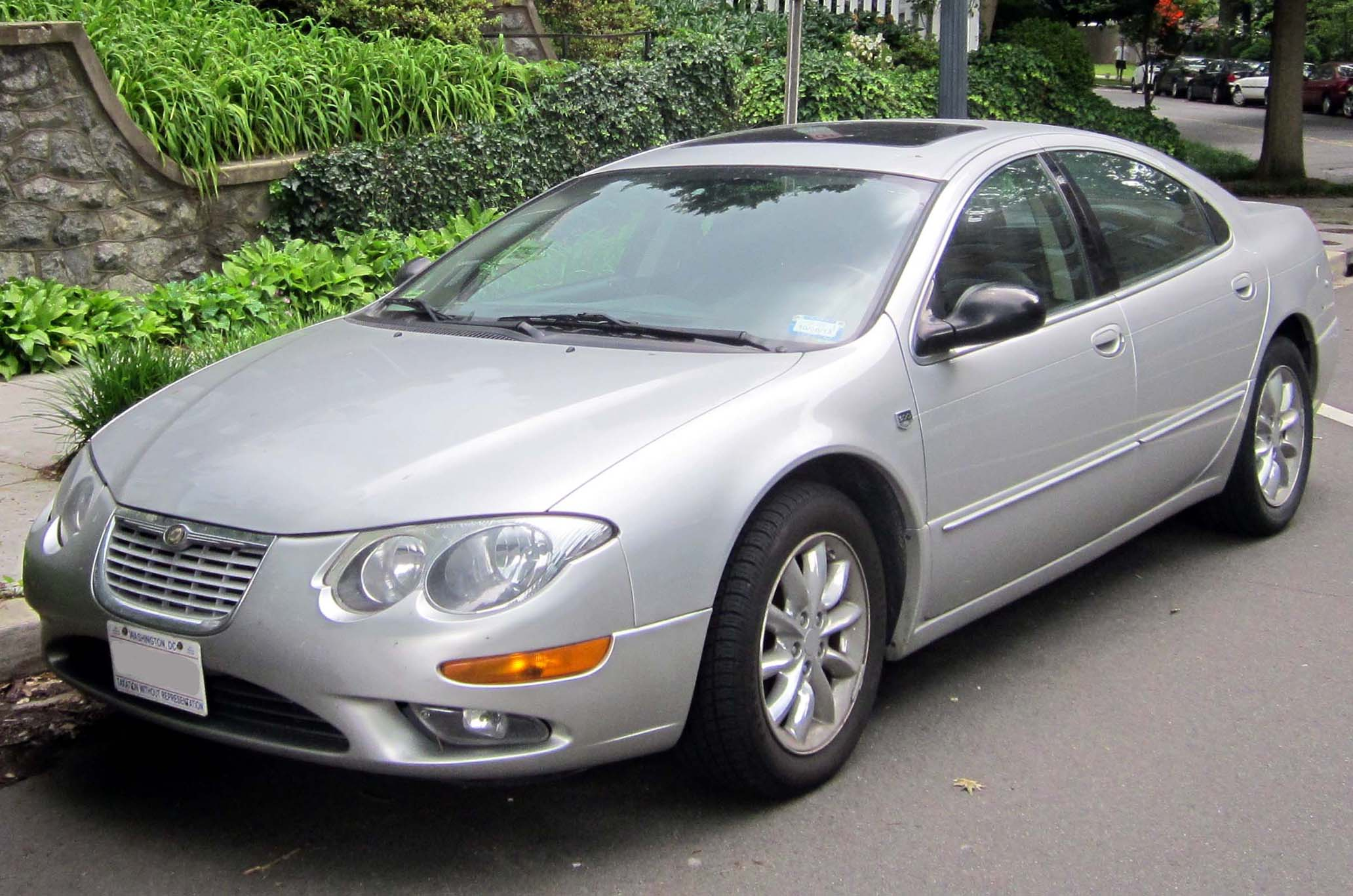 2002-2004 Chrysler 300M photographed in Washington, D.C., USA.